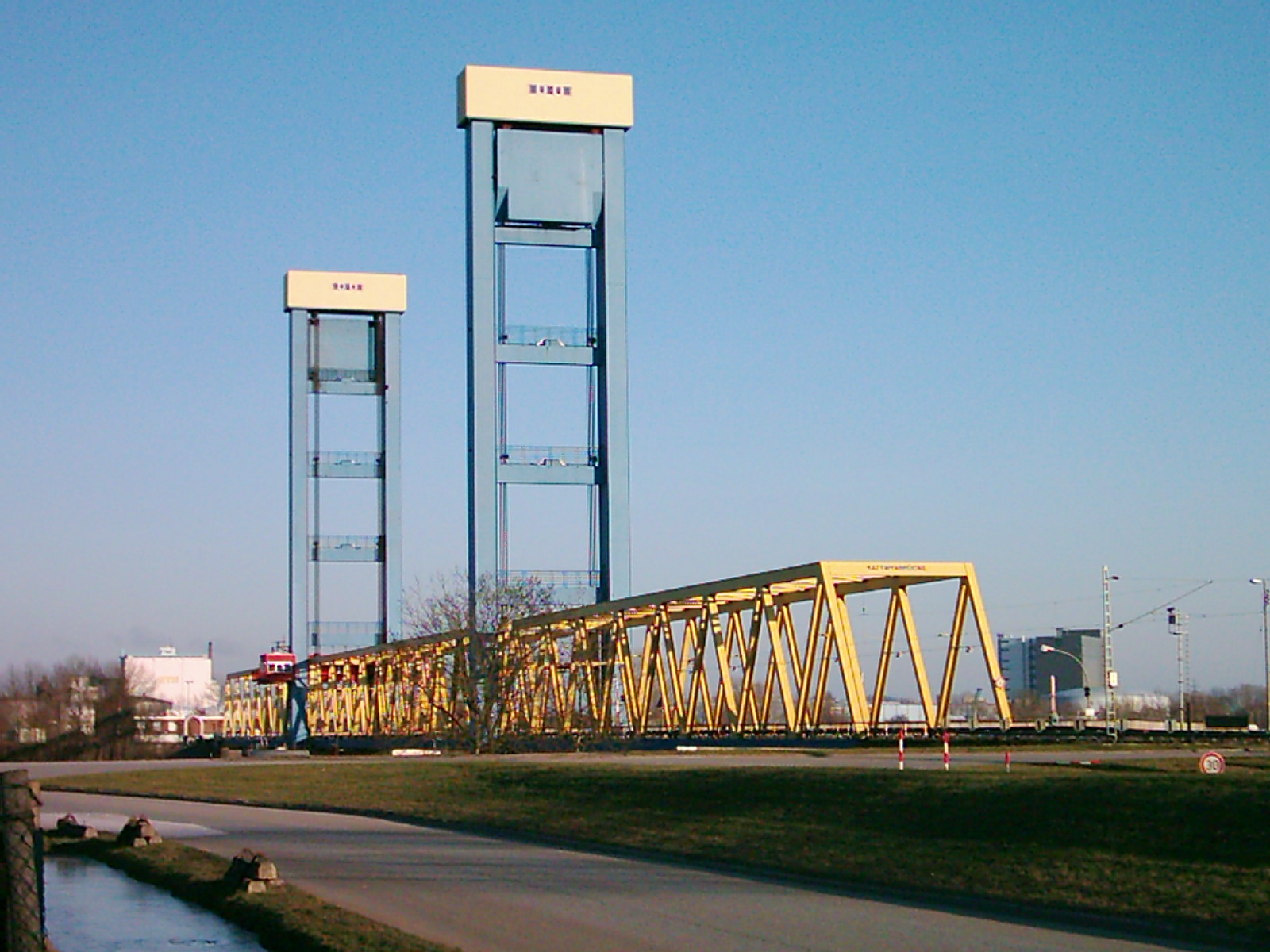 The Kattwyk bridge in Hamburg, Germany.